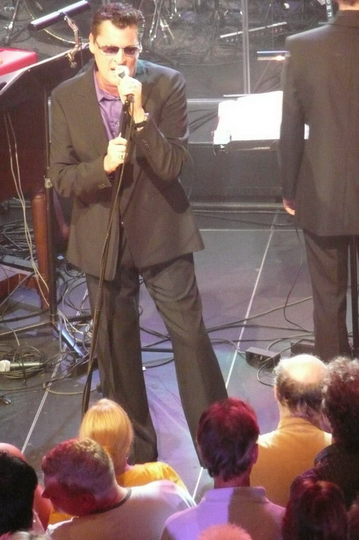 Barry Hay, Golden Earring singer, in Paradiso, Amsterdam.